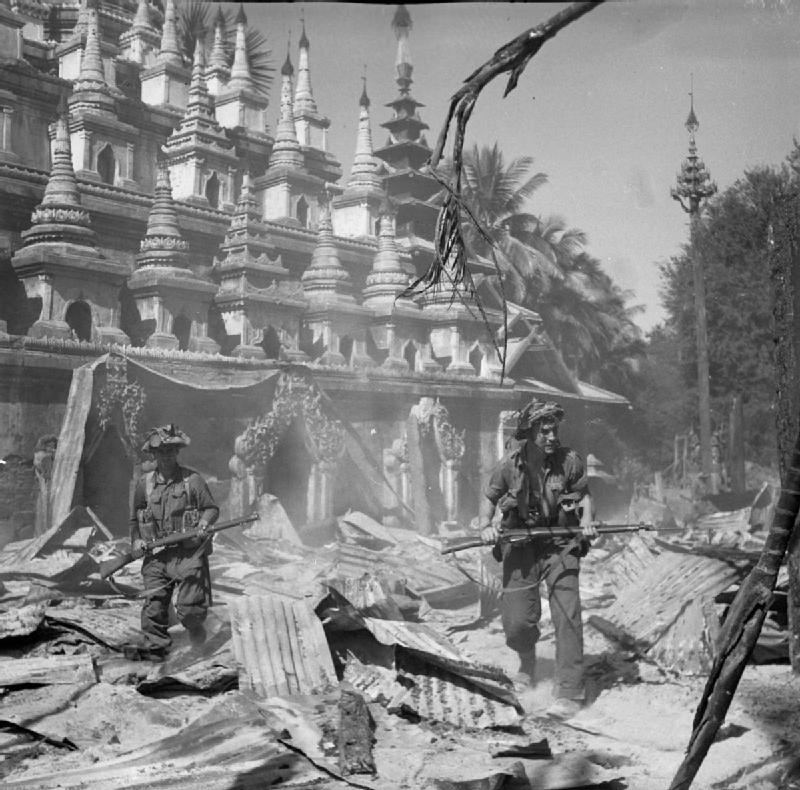 THE BRITISH ARMY IN BURMA DURING THE SECOND WORLD WAR, Two British soldiers on patrol in the ruins of the Burmese town of Bahe during the advance on Mandalay.